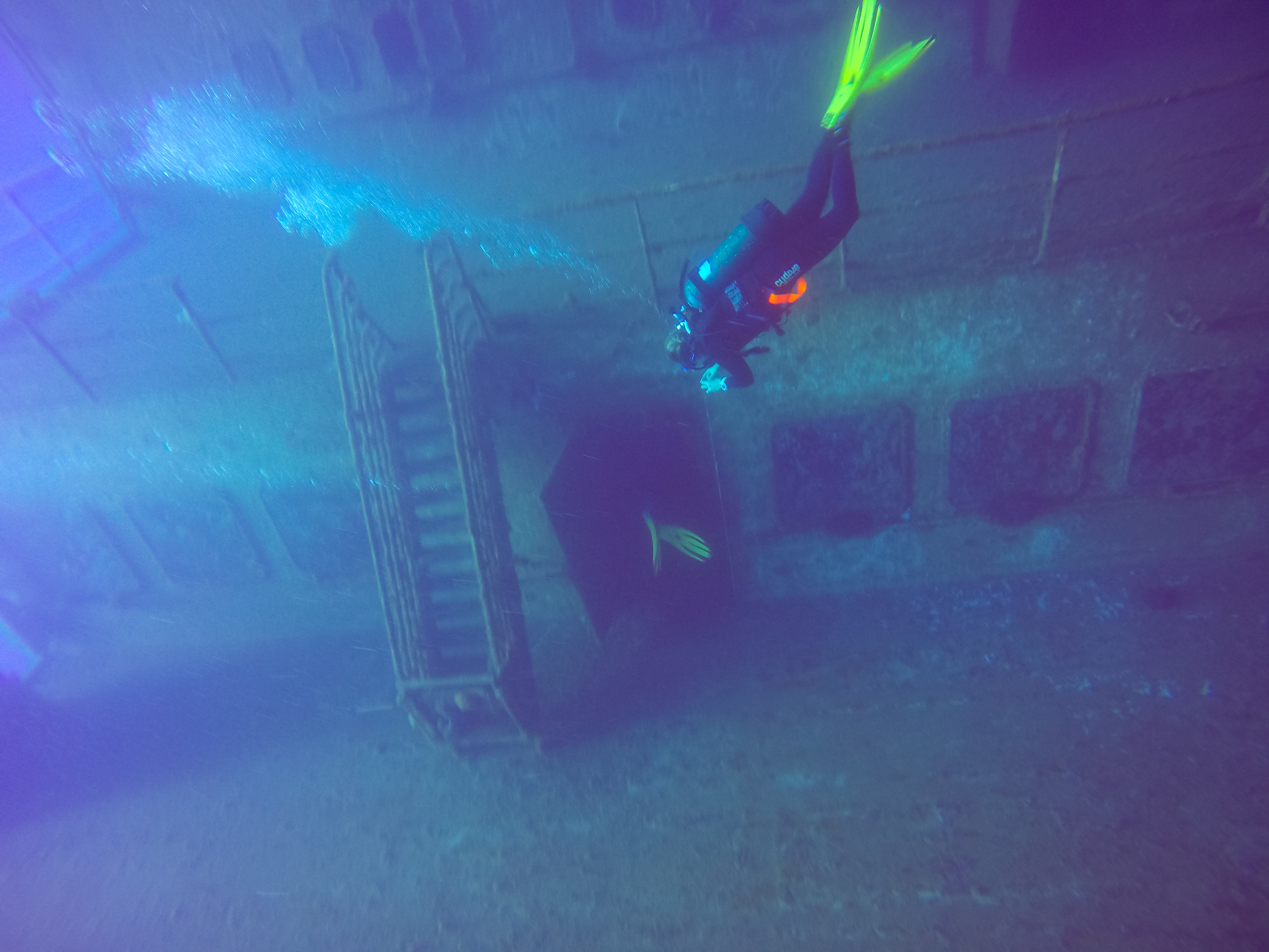 Diving into the wreck of the Zenobia, Cyprus